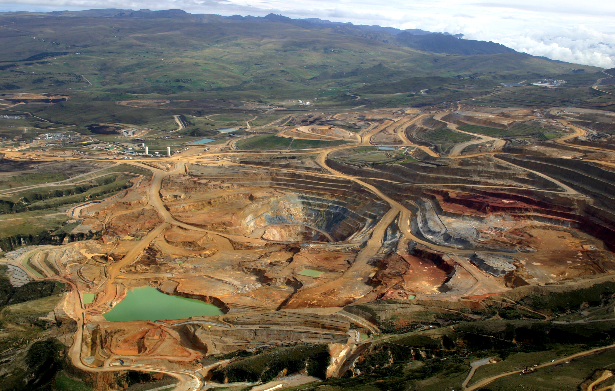 Panorámica de operaciones